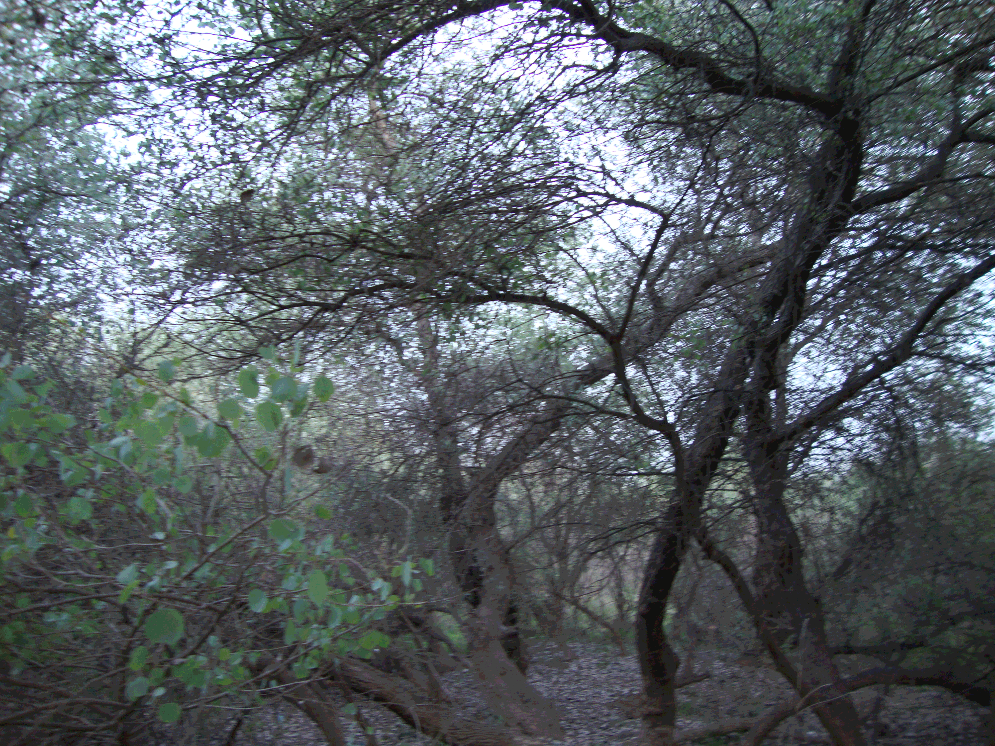 جنگلهای حمیدآباد، جاده دزفول به شوش، در بخش جلگه ای خوزستان، این جنگلها حدود 99 کیلومتر عمق دارند